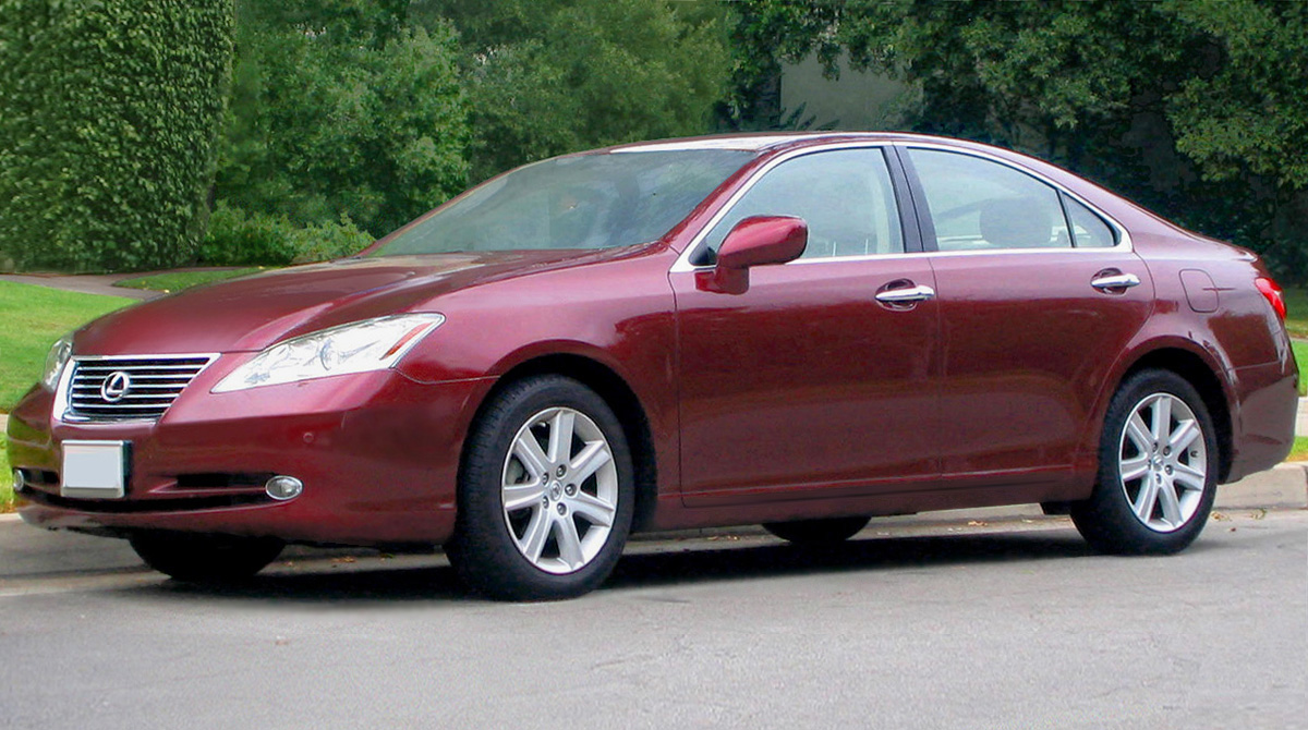 ES 350